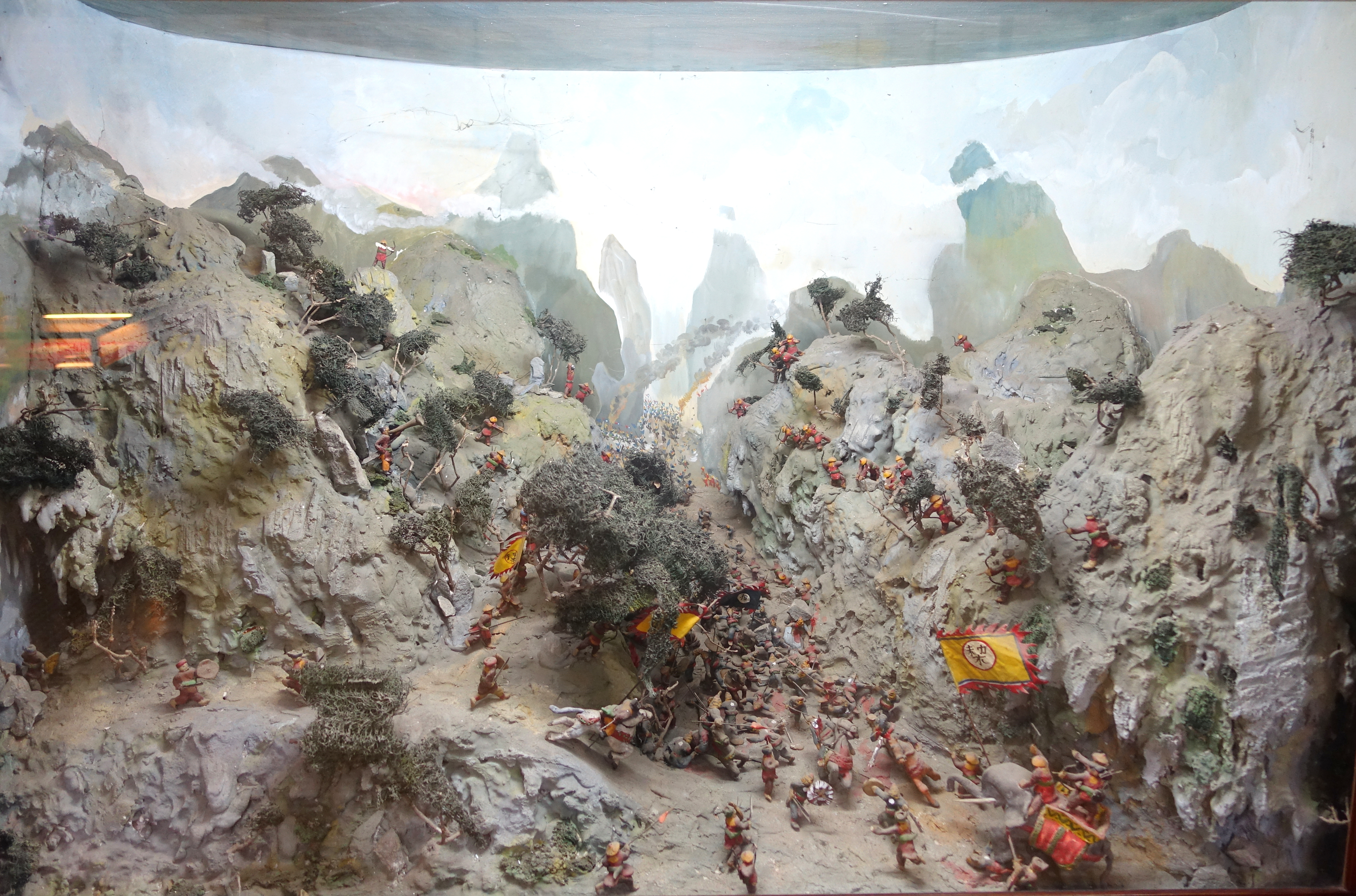 Exhibit in the Museum of Vietnamese History, Ho Chi Minh City, Vietnam. This work is old enough so that it is in the public domain.